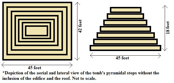 Geometrical representation of the lateral and the superior (aerial) view of the tomb of Cyrus the Great. Not to scale. Dimensions devised based on literature not by measuring.